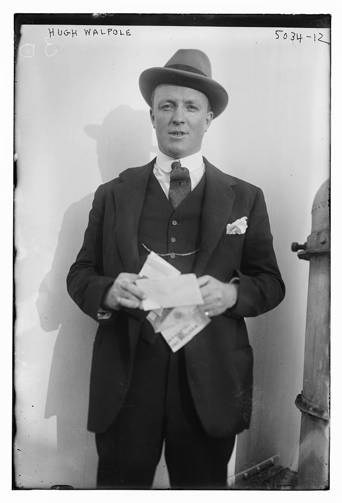 Hugh Walpole circa 1915